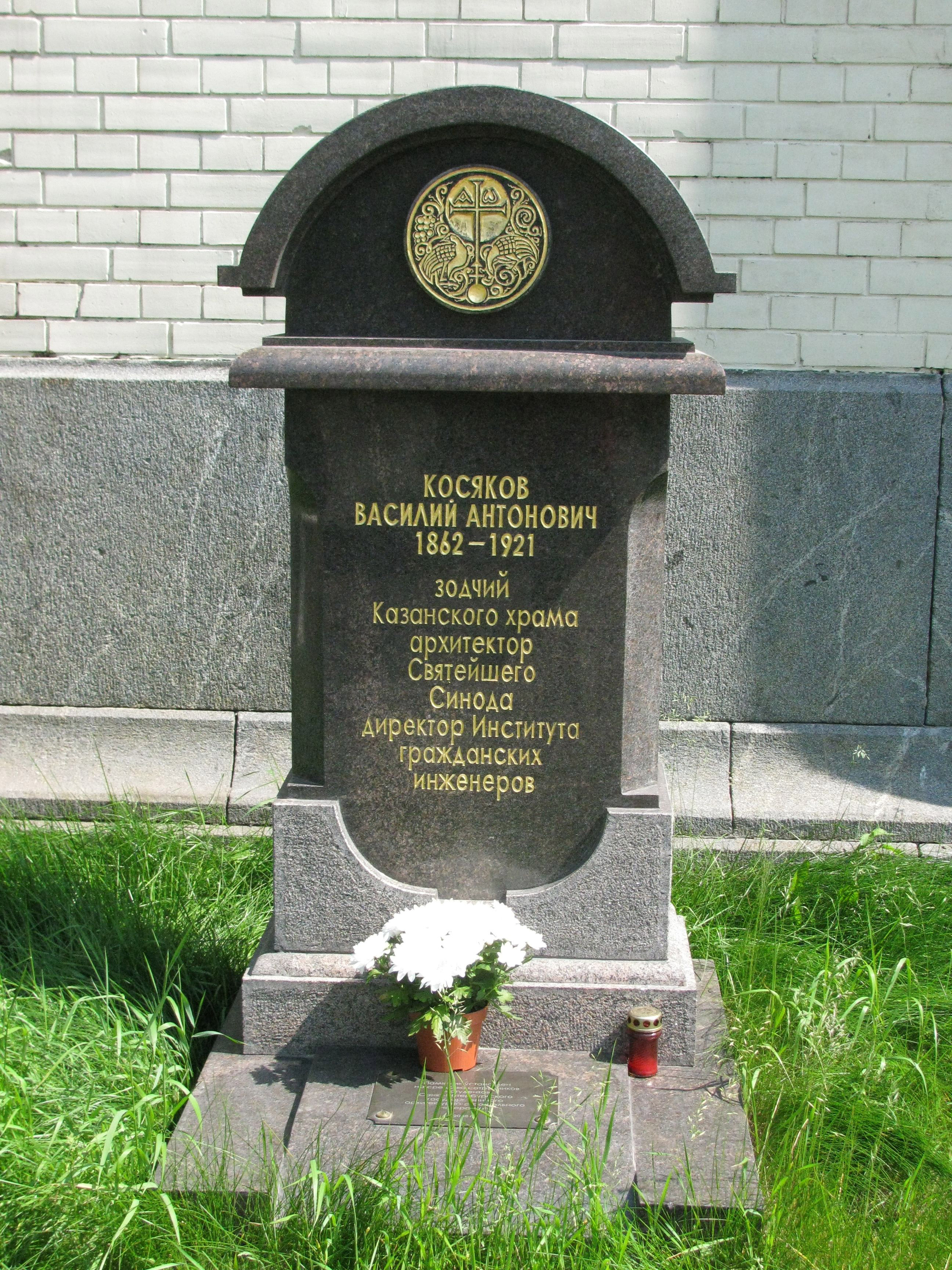 Grave of Vasily Antonovich Kosyakov in Novodevichy Cemetery, St.Petersburg, Russia.